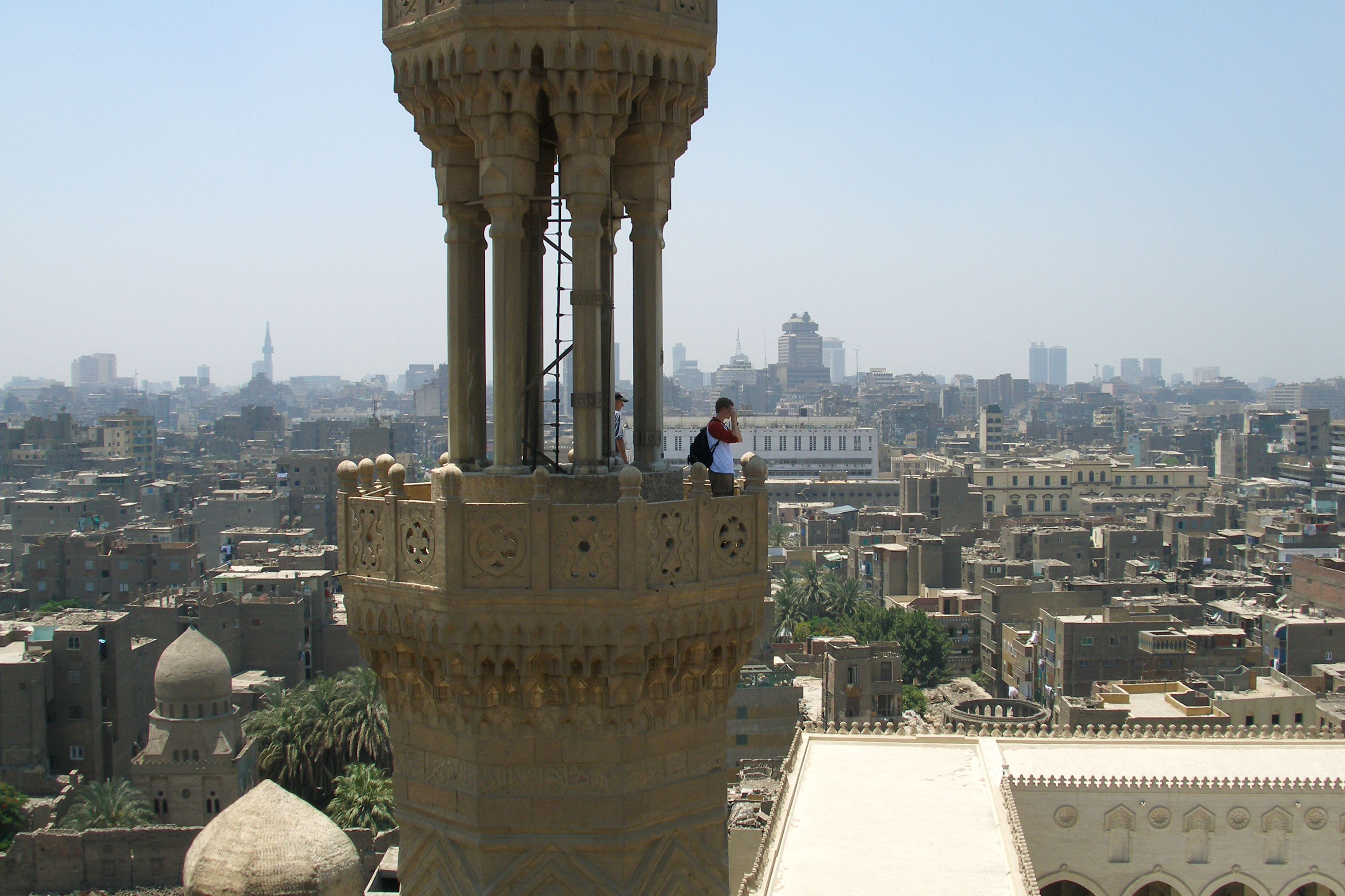 Cairo, Egypt: One of two minarets which also serves as Bab Zuweila tower. Bab Zuweila is one of three remaining gates in the walls of the Old City of Cairo. The Mosque of Sultan al-Mu'ayyad is next to Bab Zuwayla built by the Mamluk sultan Al-Mu'ayyad Sayf ad-Din Shaykh. Construction was completed in 1421.